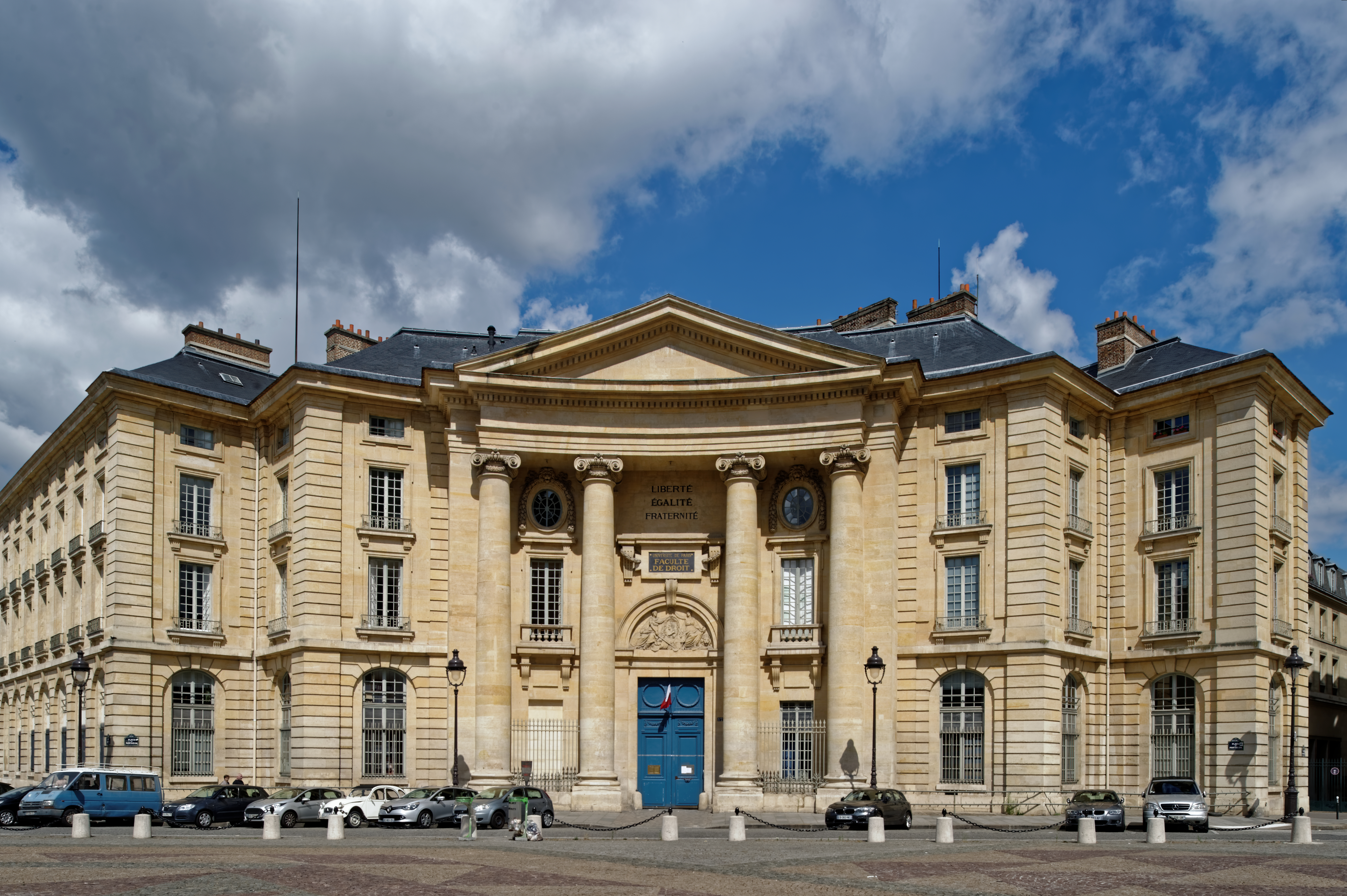 Faculté de Droit de Paris, France